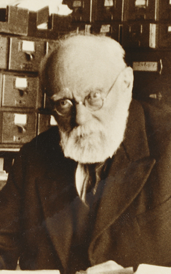 Otlet to work in an office built at his home following the closure of the Palais Mondial in June 1937